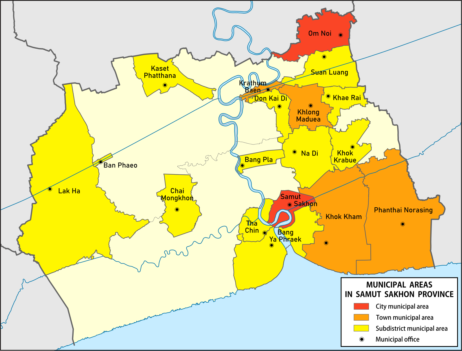 Map of municipal areas in Samut Sakhon Province: City municipalities (thetsaban nakhon) Town municipalities (thetsaban mueang) Subdistrict municipalities (thetsaban tambon)